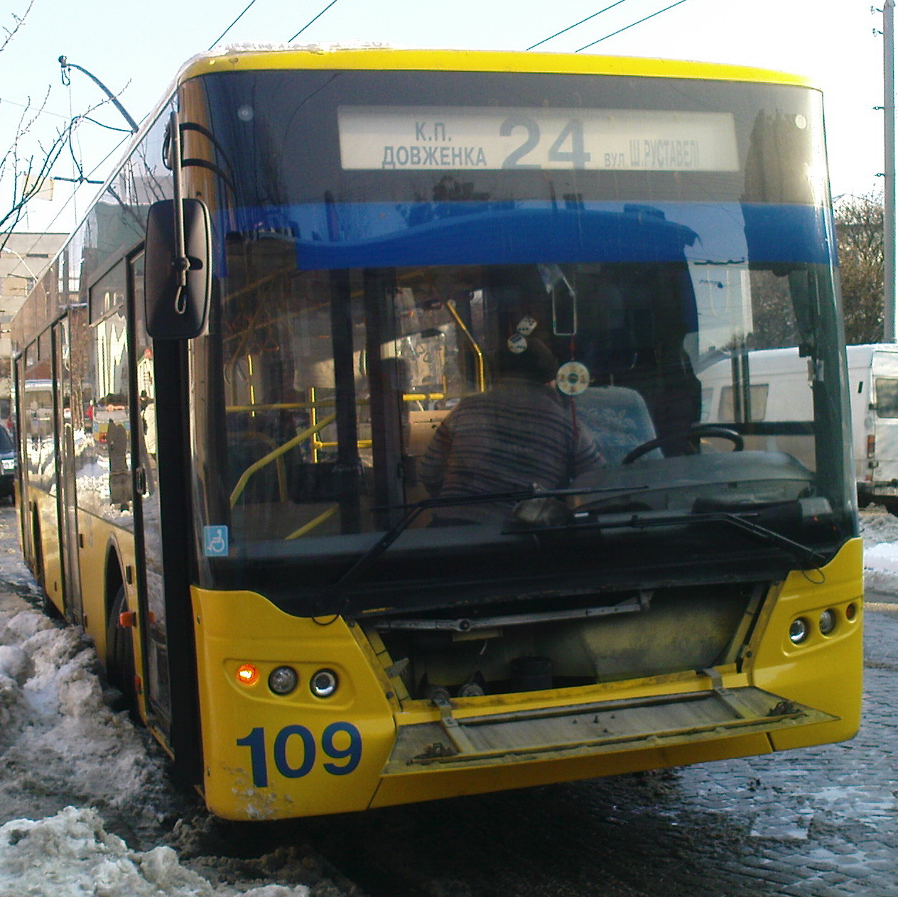 LAZ E183